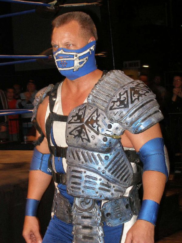 Professional wrestler Glacier during his entrance during a Chikara's show.